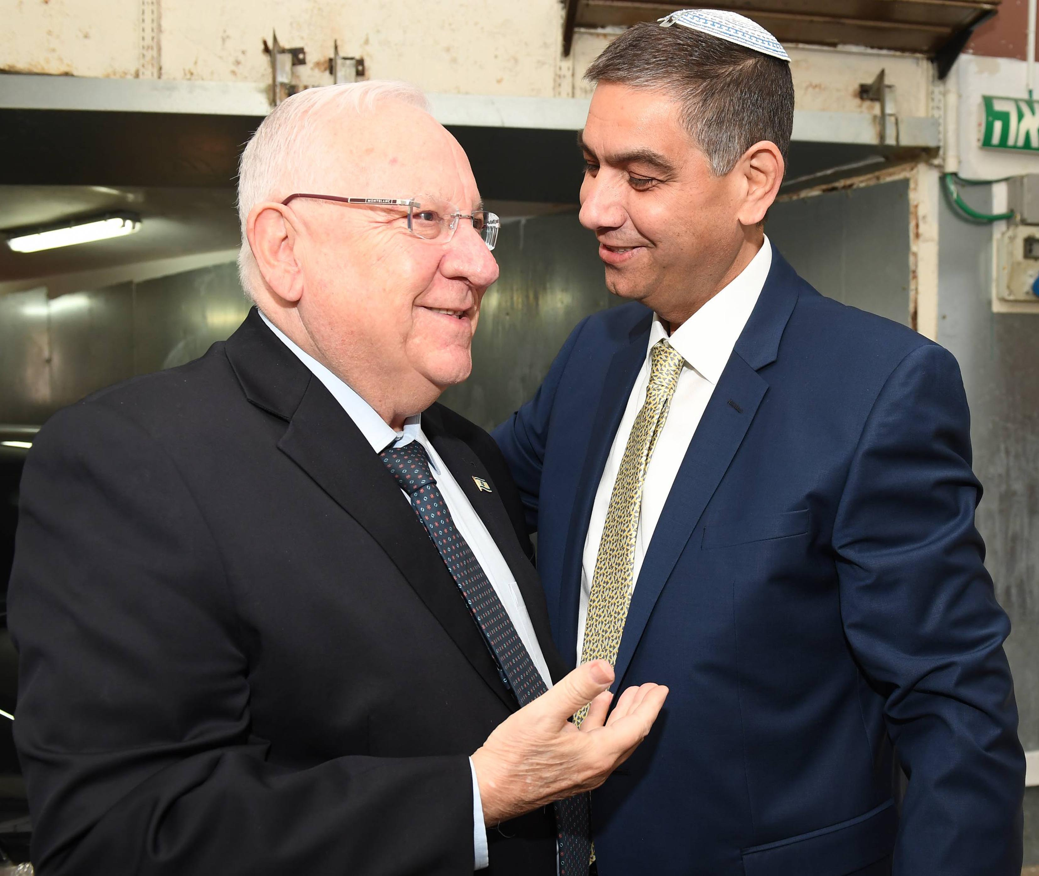 President of Israel, Reuven Rivlin, opens the 15th Jerusalem Conference of the "B'Sheva" group. Monday, February 12, 2018. Photo Credit: Mark Neyman / GPO.